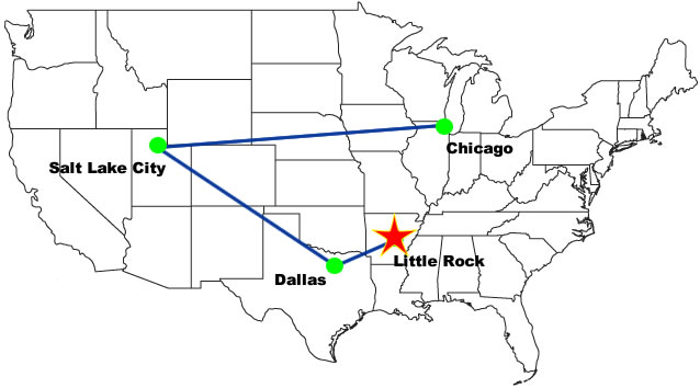 Flight patch American Airlines 1420